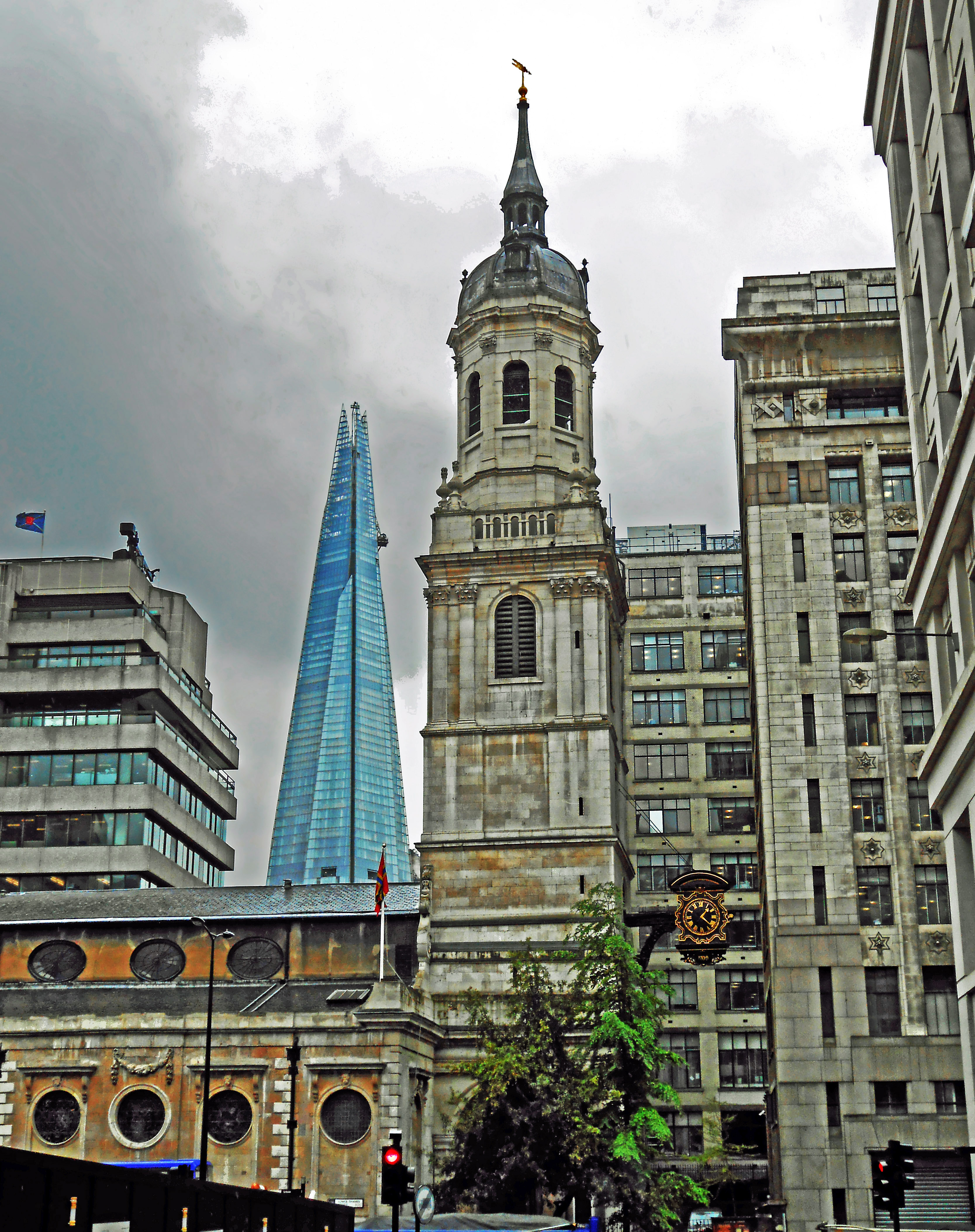 The church of St Magnus the Martyr (designed by Wren after the original was lost in the Great Fire) near London Bridge. The Shard looms up behind the church, from across the other side of the river.